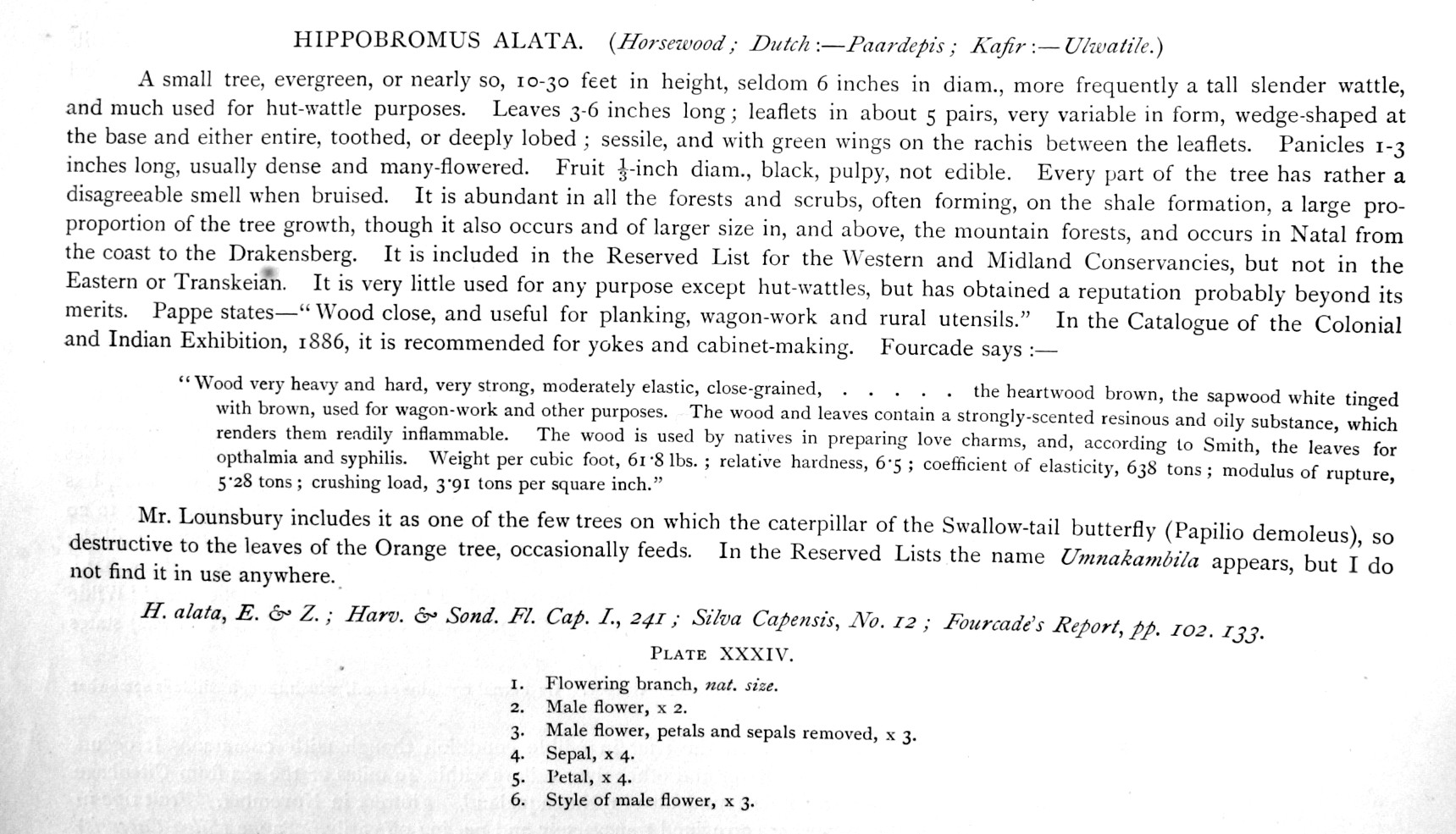 Description of False Horsewood, prevalence and uses in South Africa IsiXhosa: uLwathile, umFazi onengxolo IsiZulu: uQhume, isiPhahluka